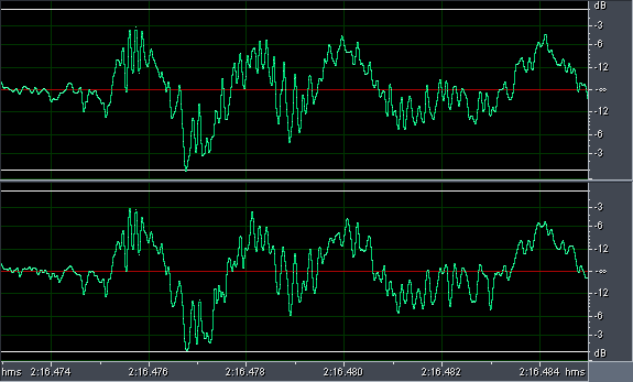 Image of a snare drum transient from "Cliffs of Dover" by Eric Johnson (Ah Via Musicom, 1990), taken with Adobe Audition.